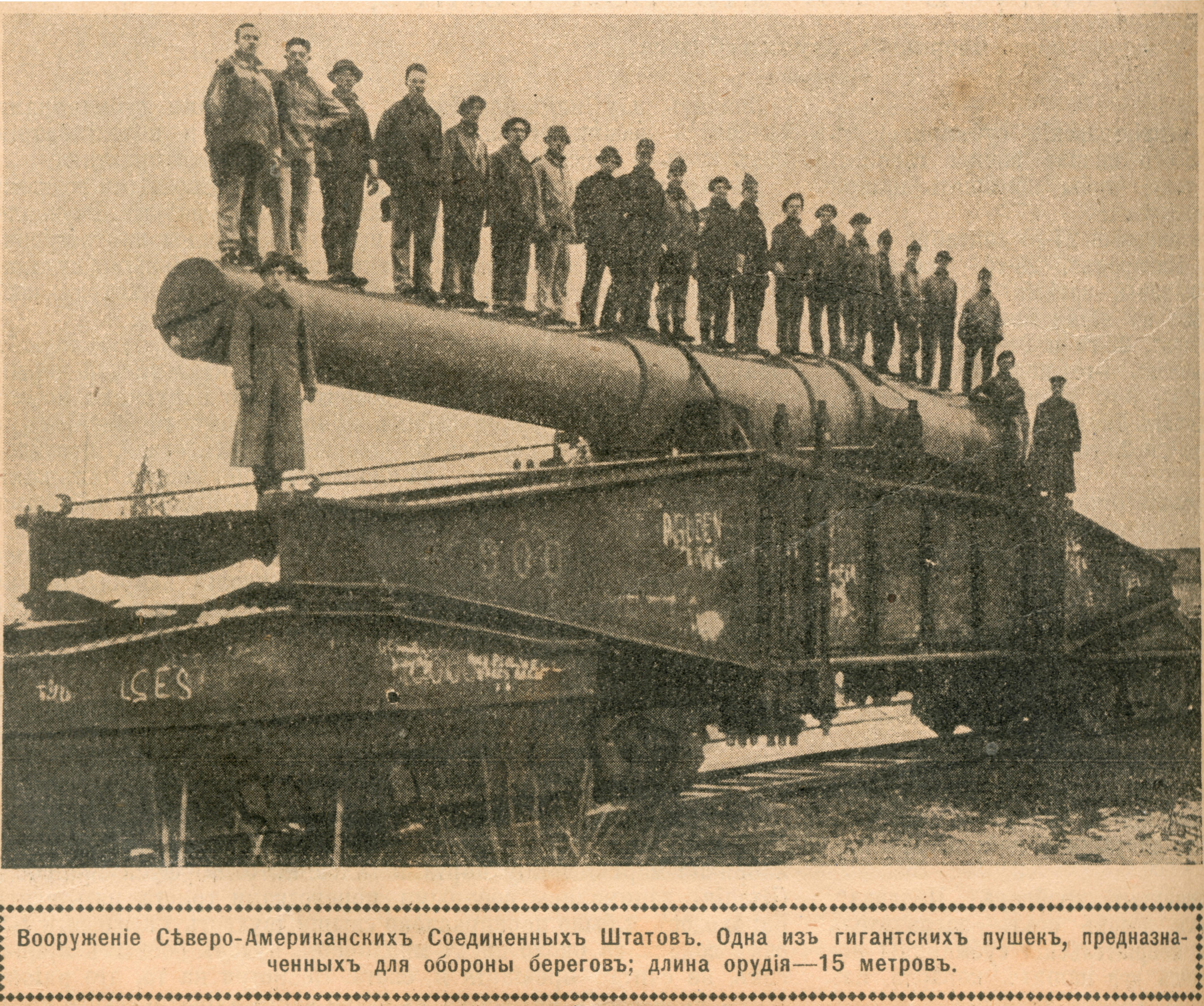 American 16-inch gun M1895 (en:16-inch gun M1895), only one was built. It is not a railway gun but is being transported by rail.